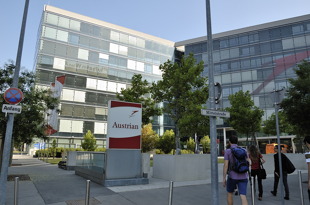 Austrian Airlines building, Airport Wien